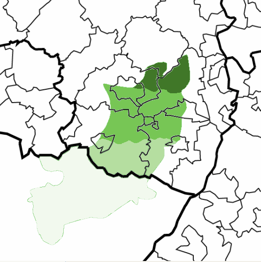 borders in the palatinate forest